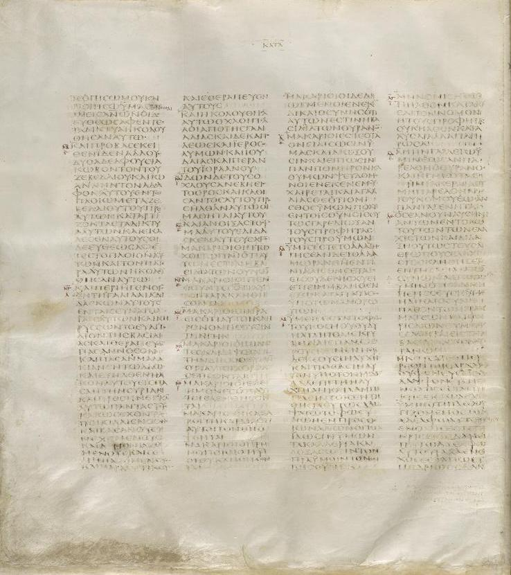 page of the codex with text of Matthew 4:9-5:22